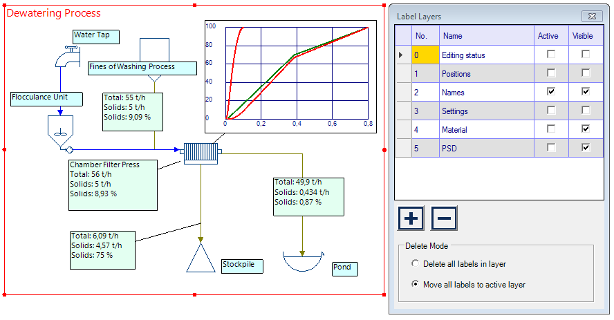 This image shows the label layer feature of the software NIAflow by Haver and Boecker.